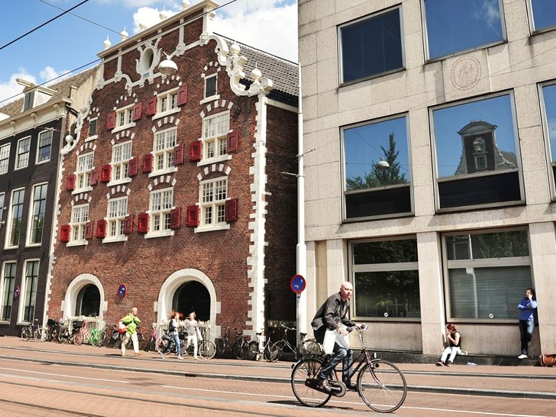 Amsterdam University Library at Singel